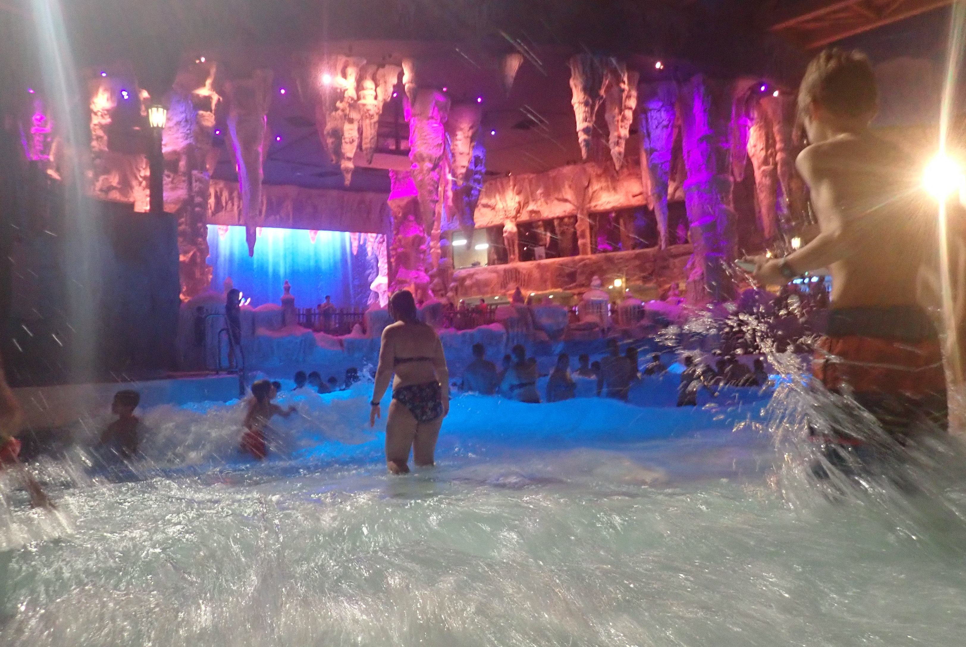 View of the wave pool in the Rulantica water park in Rust.